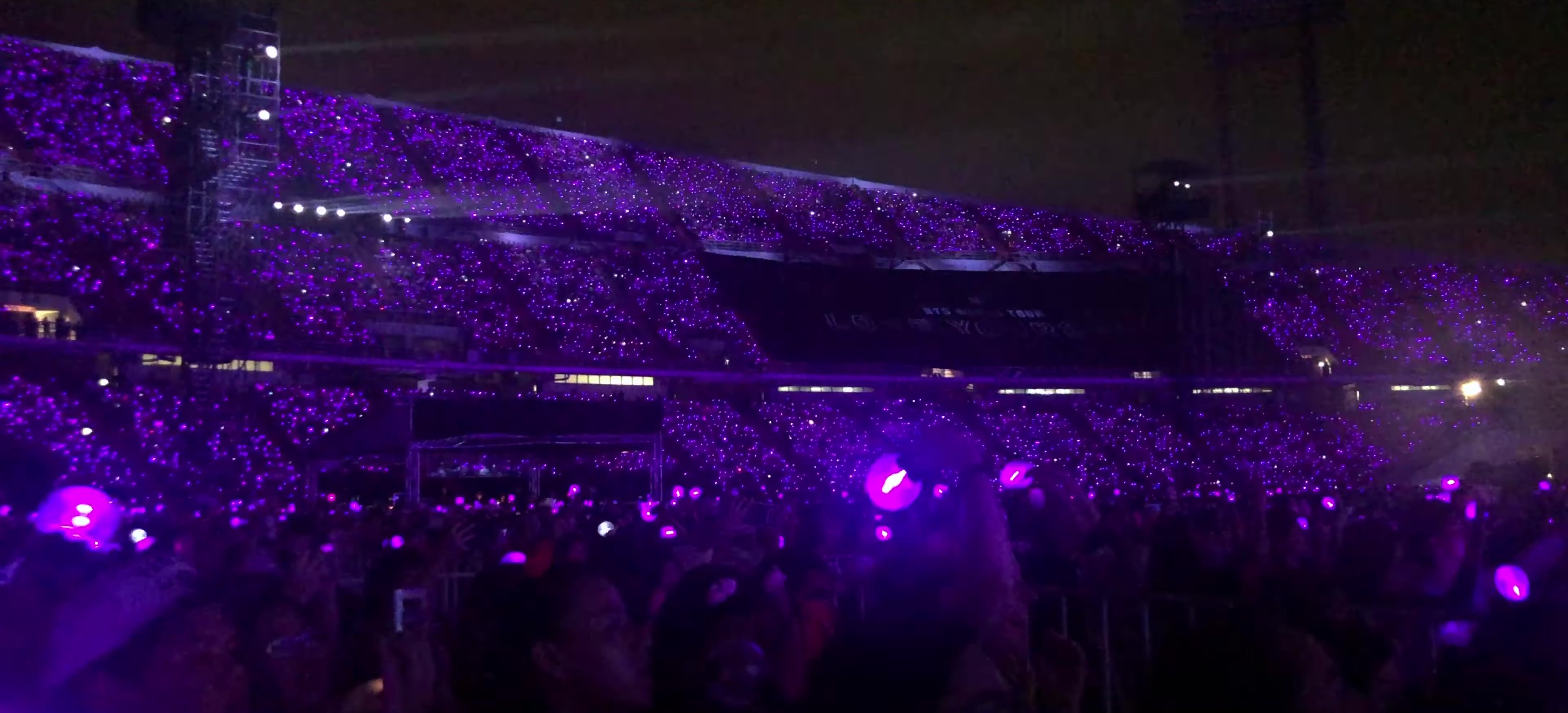 ARMY 'Purple Ocean' during BTS Love Yourself tour in Bangkok, Thailand, 7 April 2019